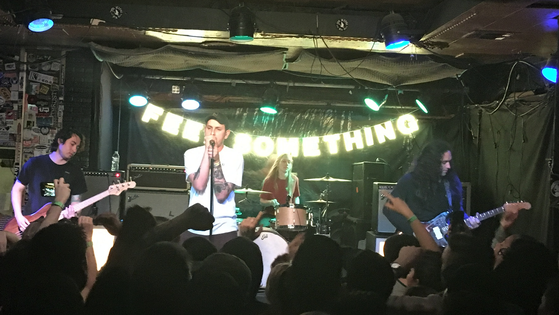 Movements playing in KCMO in March 2018